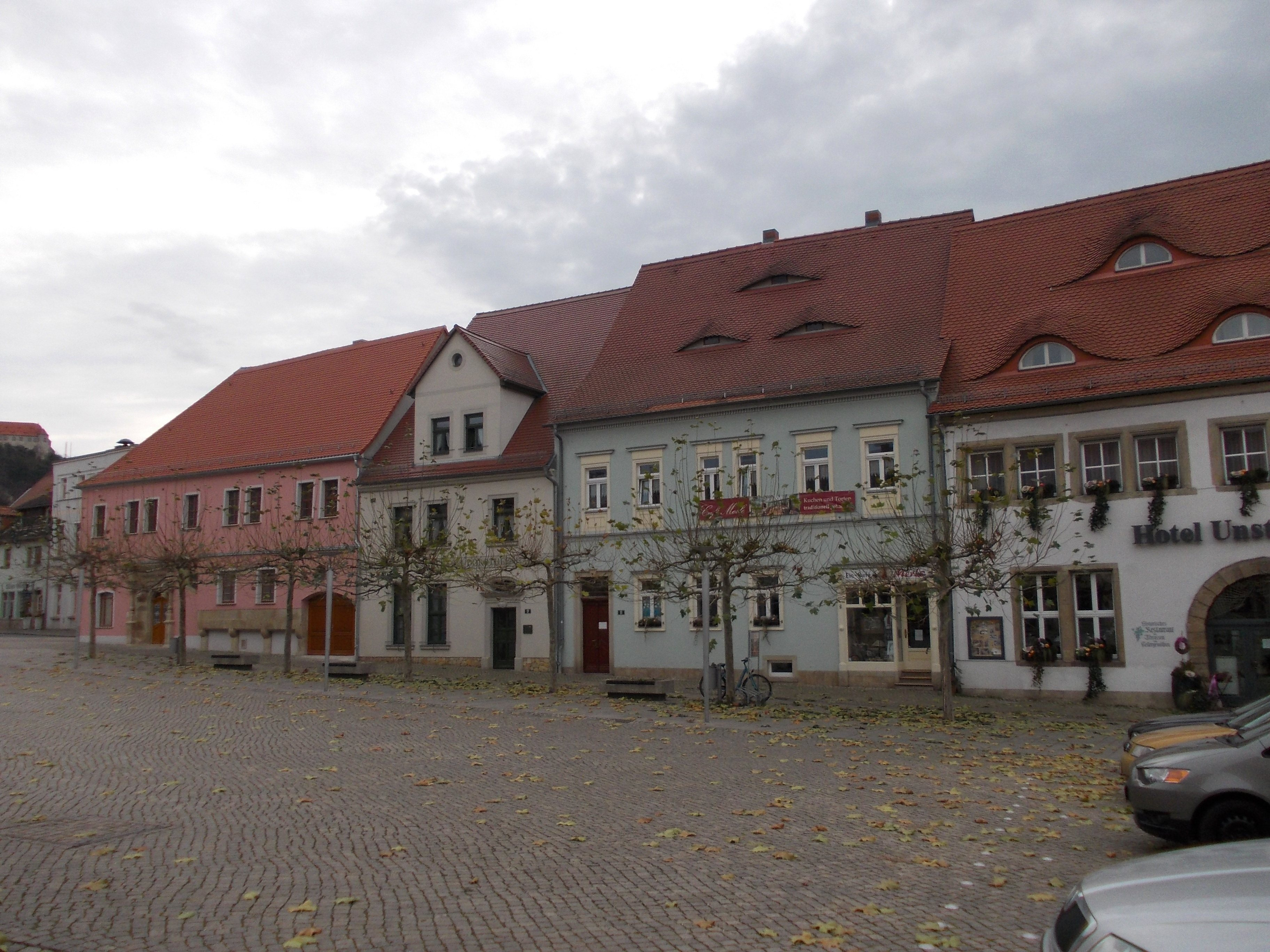 South side of the market square in Freyburg/Unstrut (district of Burgenlandkreis, Saxony-Anhalt)